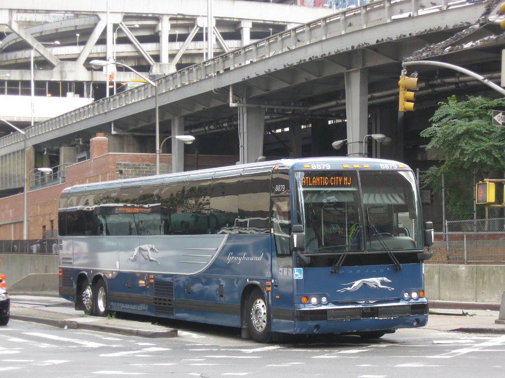 Greyhound Lines Prevost X3-45 #8879, repainted into the latest livery, departs New York City on Schedule 8535.